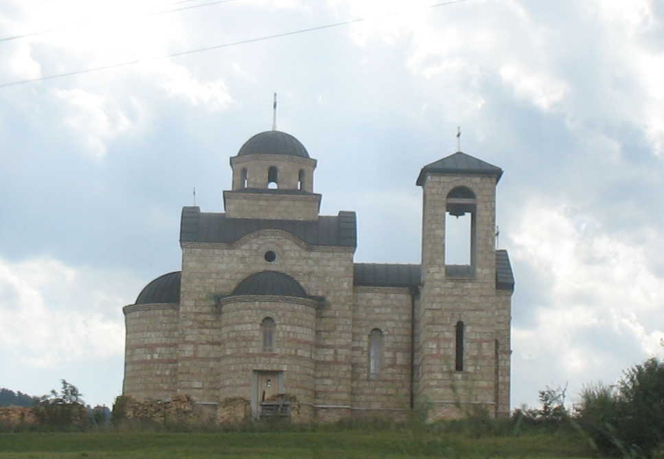 Church in Šljivovica village on Zlatibor, in Čajetina municipality,Serbia.